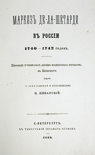 Marquis de La Chetardie in Russia in 1740-42. Title page of the 1862 edition of La Chetardie's dispatches.